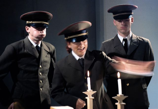 Elmar Hess: "War Years", Still, 1996, c-print, 100 x 70 cm